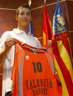 A pic of Simeón